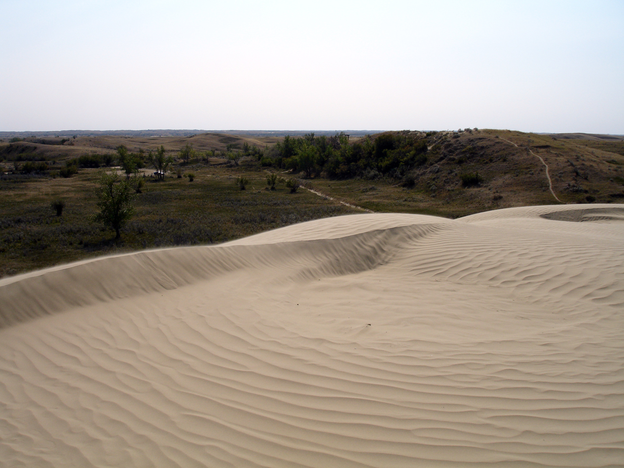 Sand dune in the Great Sand Hills of southern Saskatchewan.